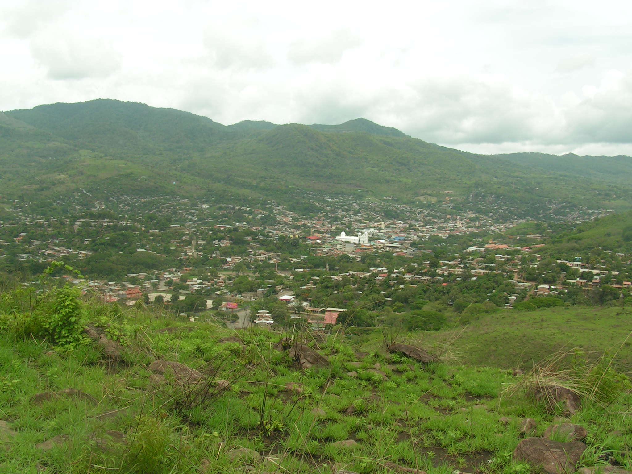 Image of downtown with cathedral from one of the surrounding hills